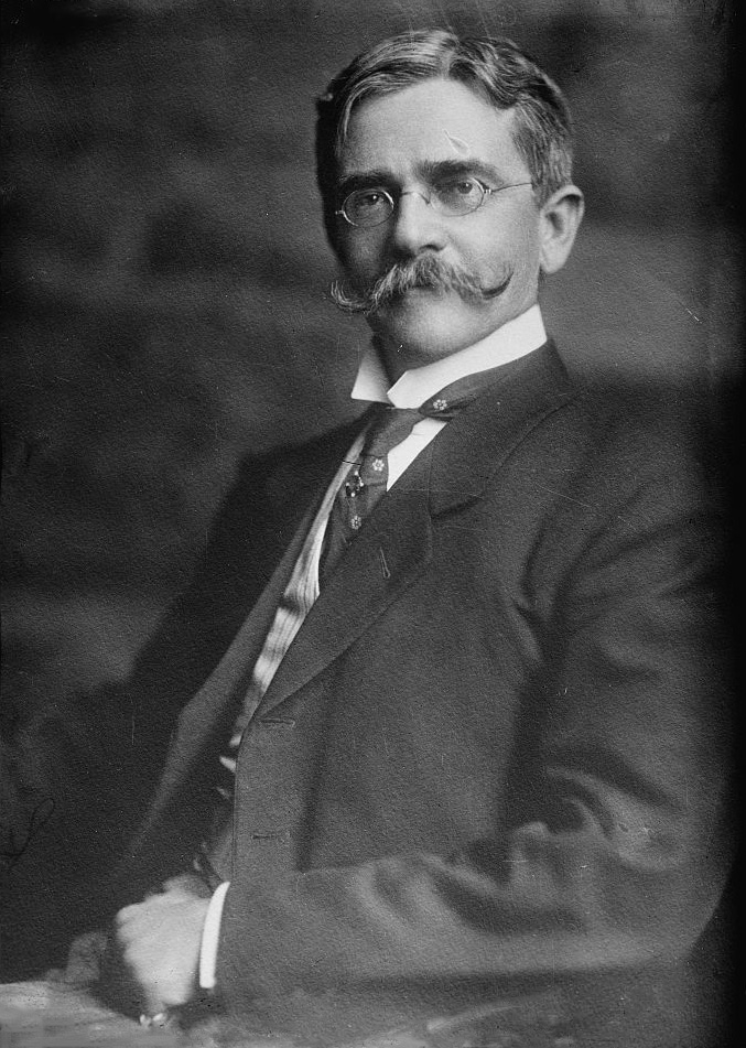 Belisario Porras Barahona Bain News Service,, publisher. Pres. of Panama -- Dr. B. Porras [between ca. 1910 and ca. 1915] 1 negative : glass ; 5 x 7 in. or smaller. Notes: Title from unverified data provided by the Bain News Service on the negatives or caption cards. Forms part of: George Grantham Bain Collection (Library of Congress). Format: Glass negatives. Repository: Library of Congress, Prints and Photographs Division, Washington, D.C. 20540 USA, General information about the Bain Collection is available at Persistent URL: Call Number: LC-B2- 3055-3